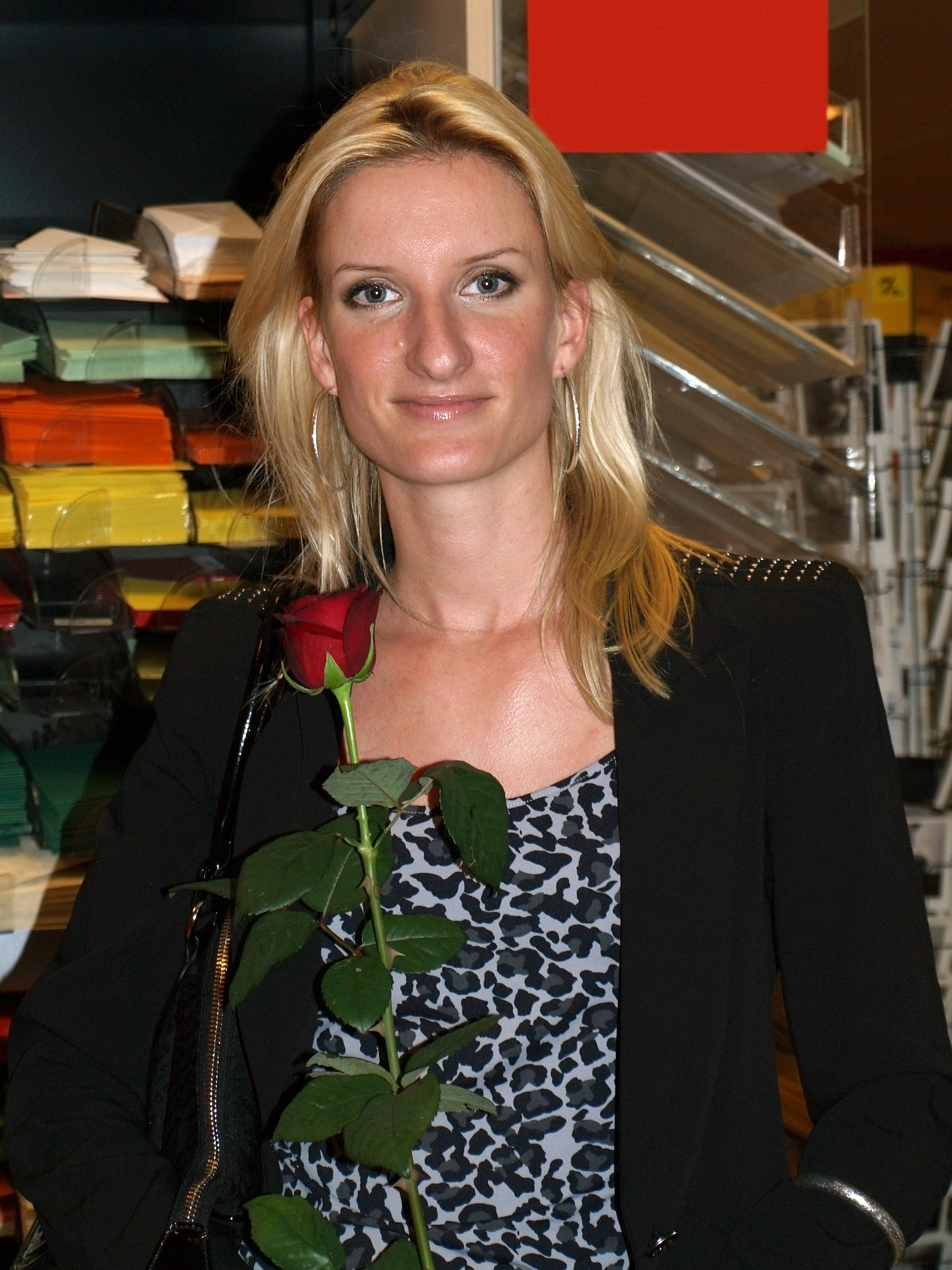 Slovak presenter (femcee) Adela Banášová